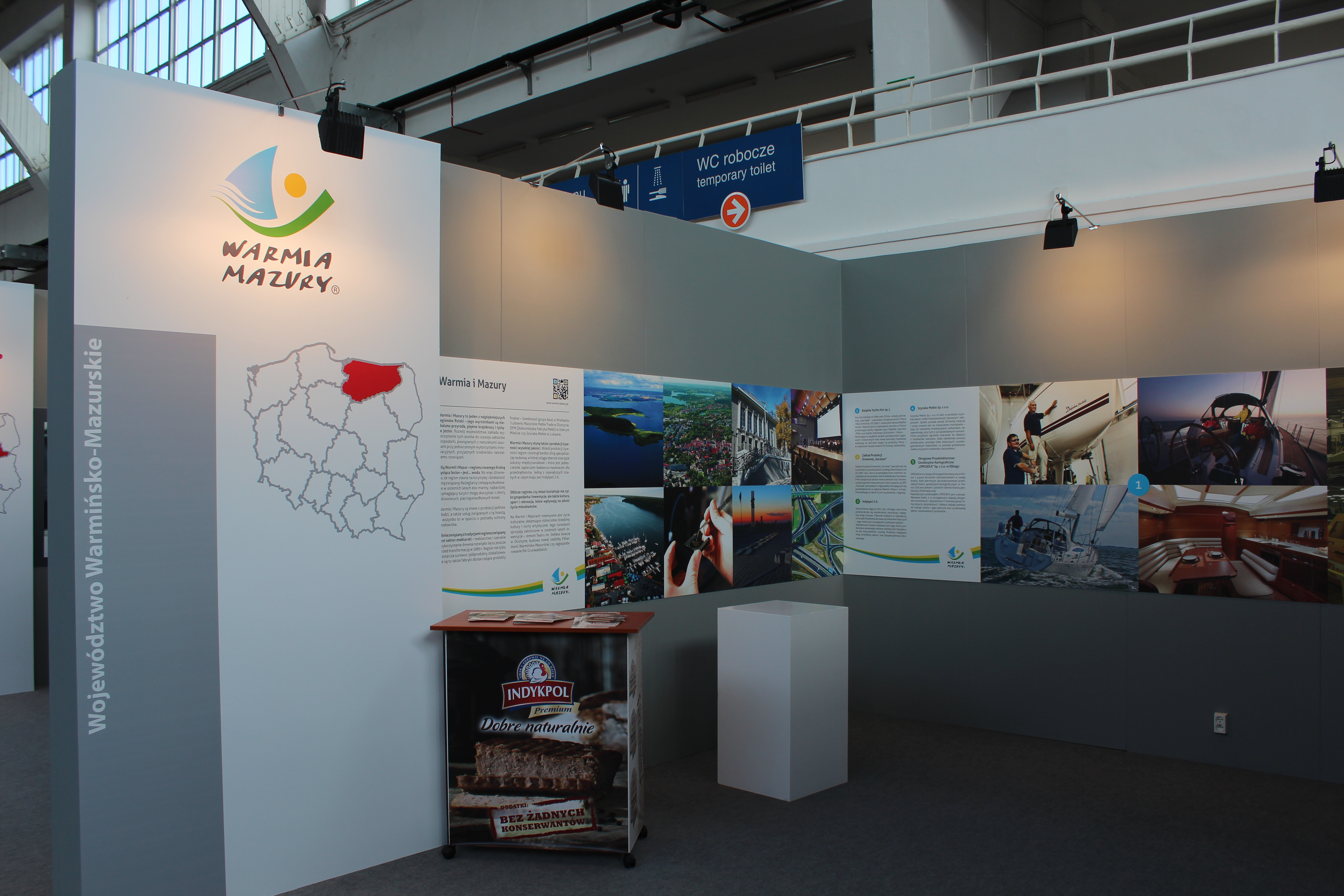 2nd General National Exhibition "Competitive Poland 1989-2014" - voivodeships presentation